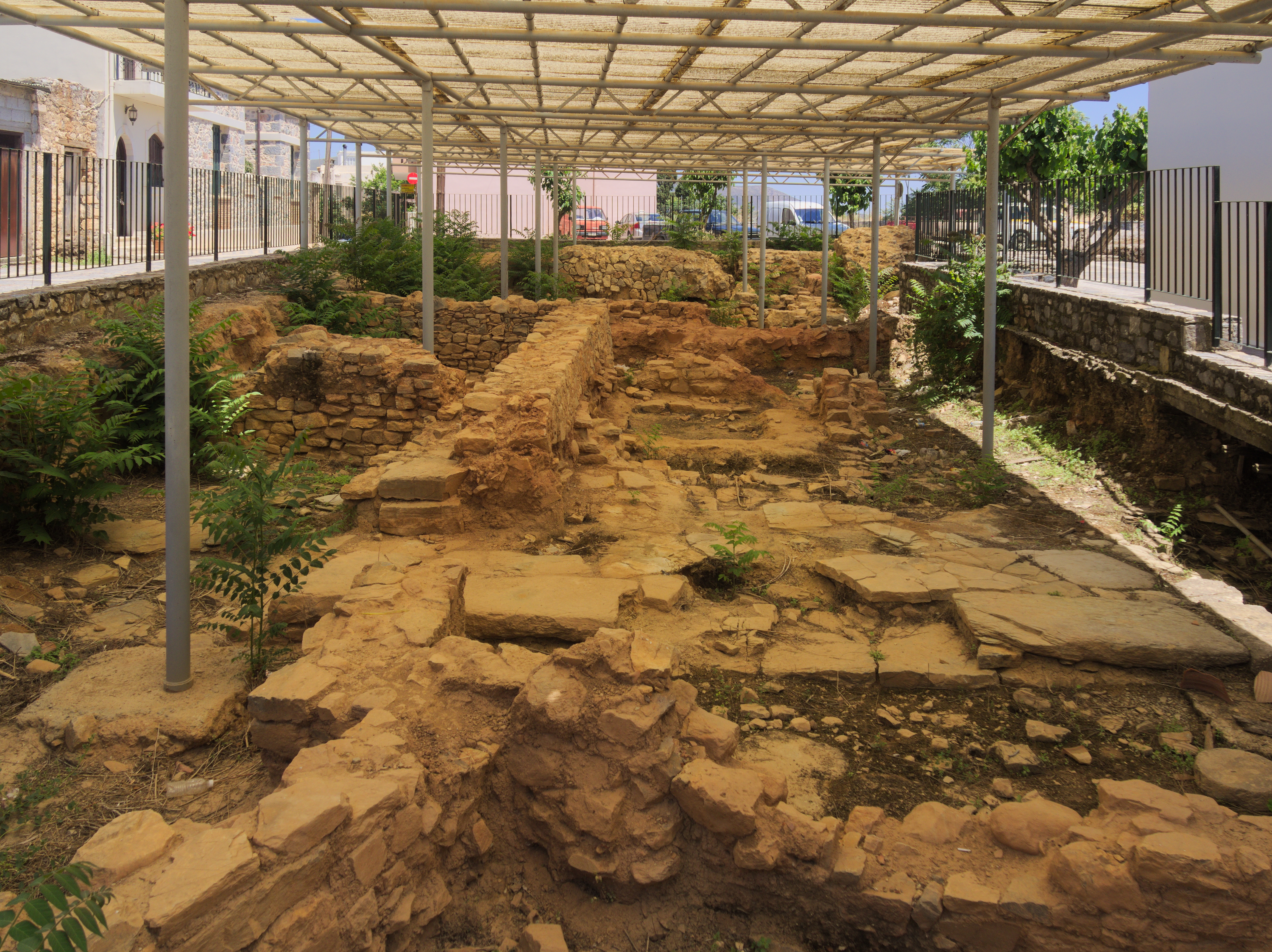 The archaeological site near the church of Saint George, Kastelli, where was a minoan settlement and a Vyzantine-Venetian castle.